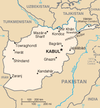 National map image from the 2004 CIA World Fact Book